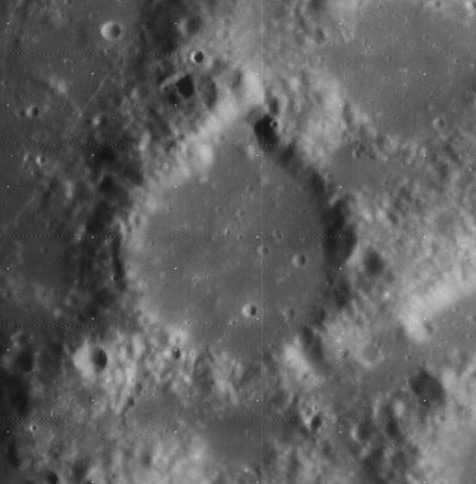 Littrow, crater on the moon.